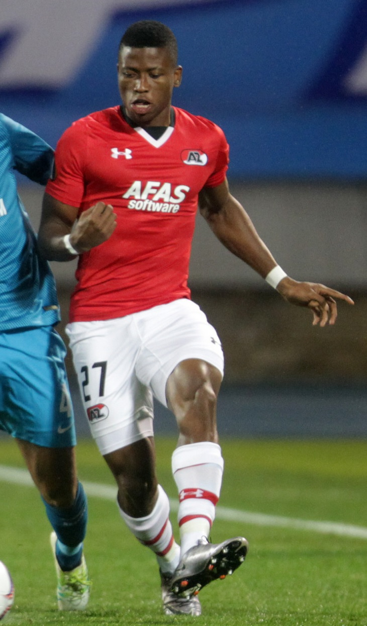 Fred Friday playing for AZ against FC Zenit Saint Petersburg.